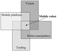 The typical main systems of an industrial mobile manipulator; mobile platform, robot manipulator, vision and tooling.